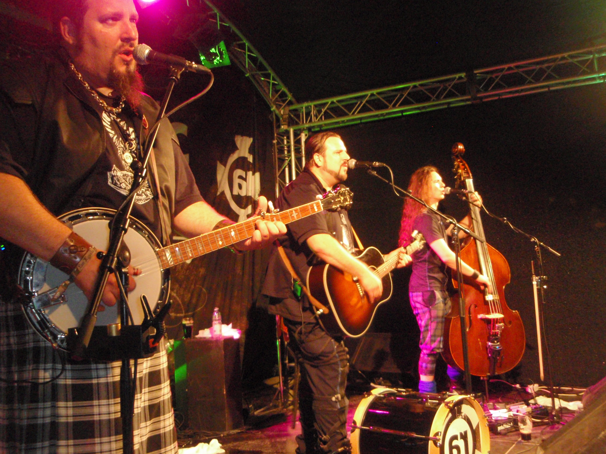 German folk band "Acoustic Revoltution, performing at the folk festival "Folk im Schlosshof" in Bonfeld/Germany